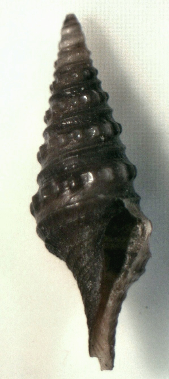 Gemmula gemmulina (E. von Martens, 1902), a turrid shell from the family Turridae; Philippines